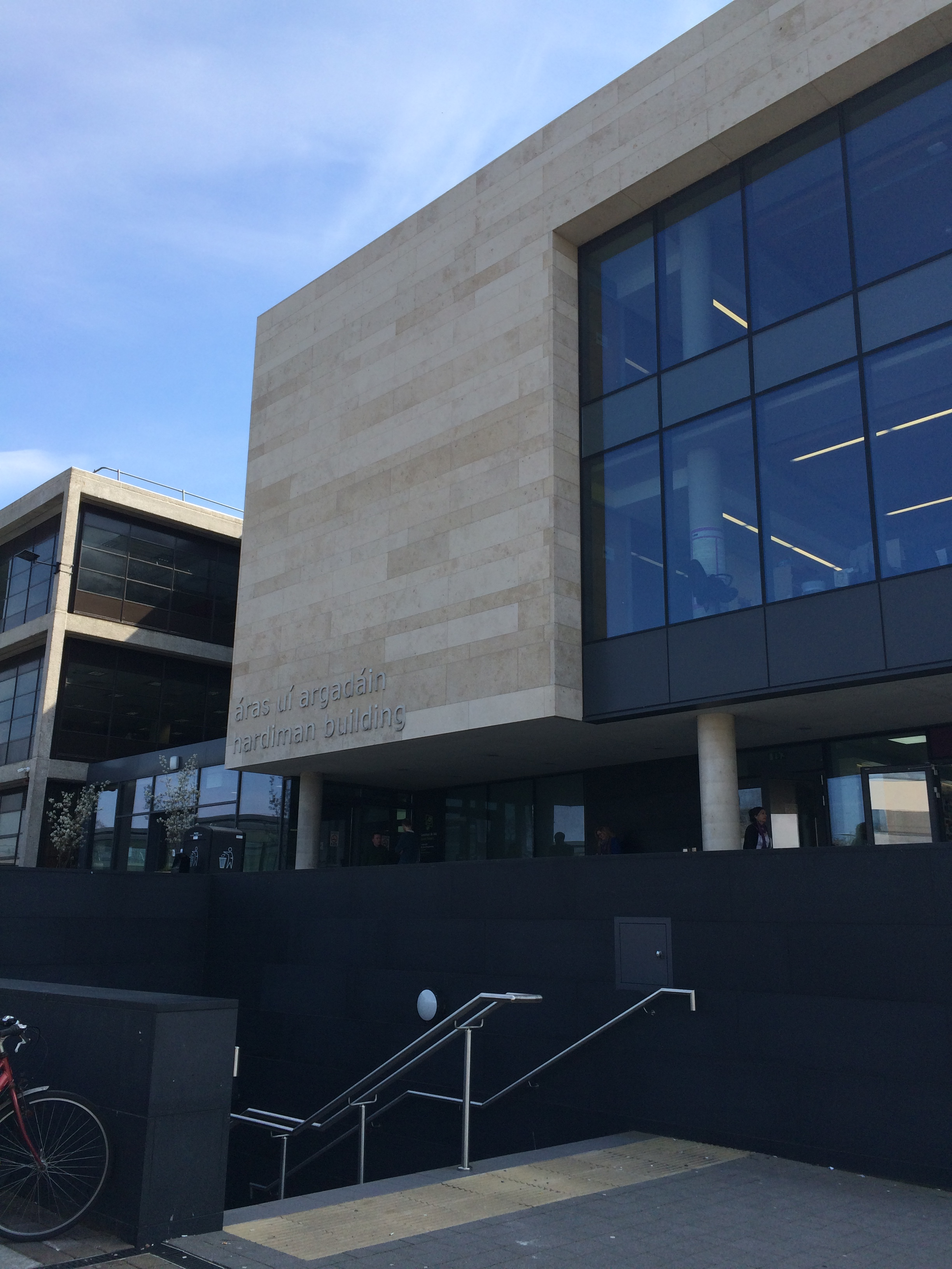 The front view of the James Hardiman Library at the National University of Ireland, Galway